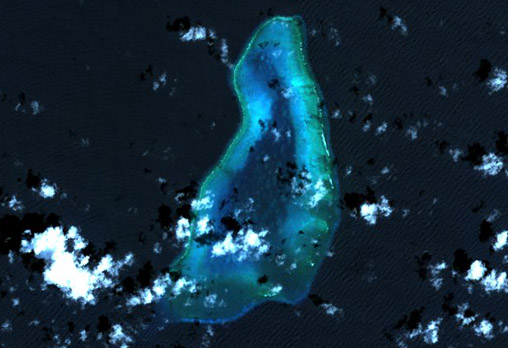 Landsat 7 image of Blenheim Reef, a widely submerged atoll in the Chagos Archipelago, British Indian Ocean Territory